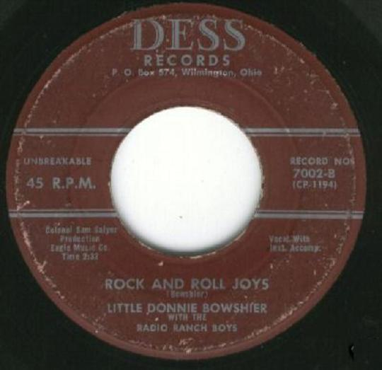 Rock and Roll Joys by Little Donnie Bowshier with the Radio Ranch Boys, Dess 1957.